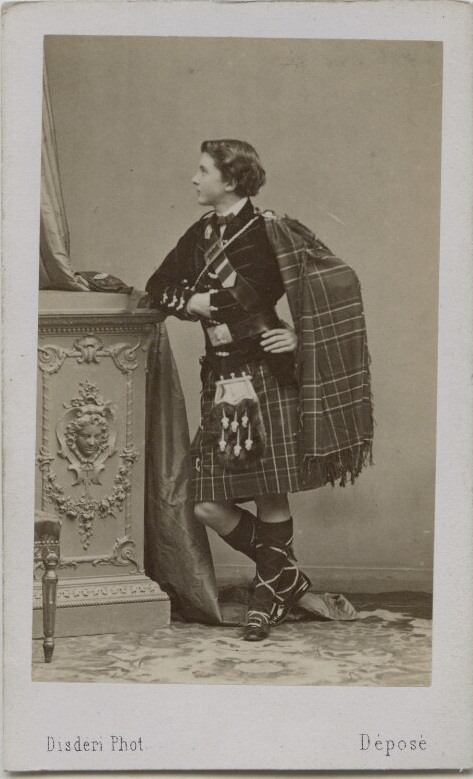 William Alexander Louis Stephen Douglas-Hamilton, 12th Duke of Hamilton and 9th Duke of Brandon, 1860